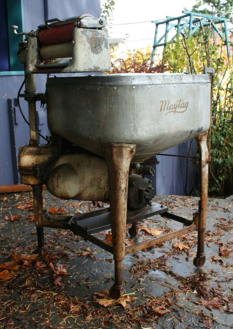 A Maytag washing machine from the early twentieth century.